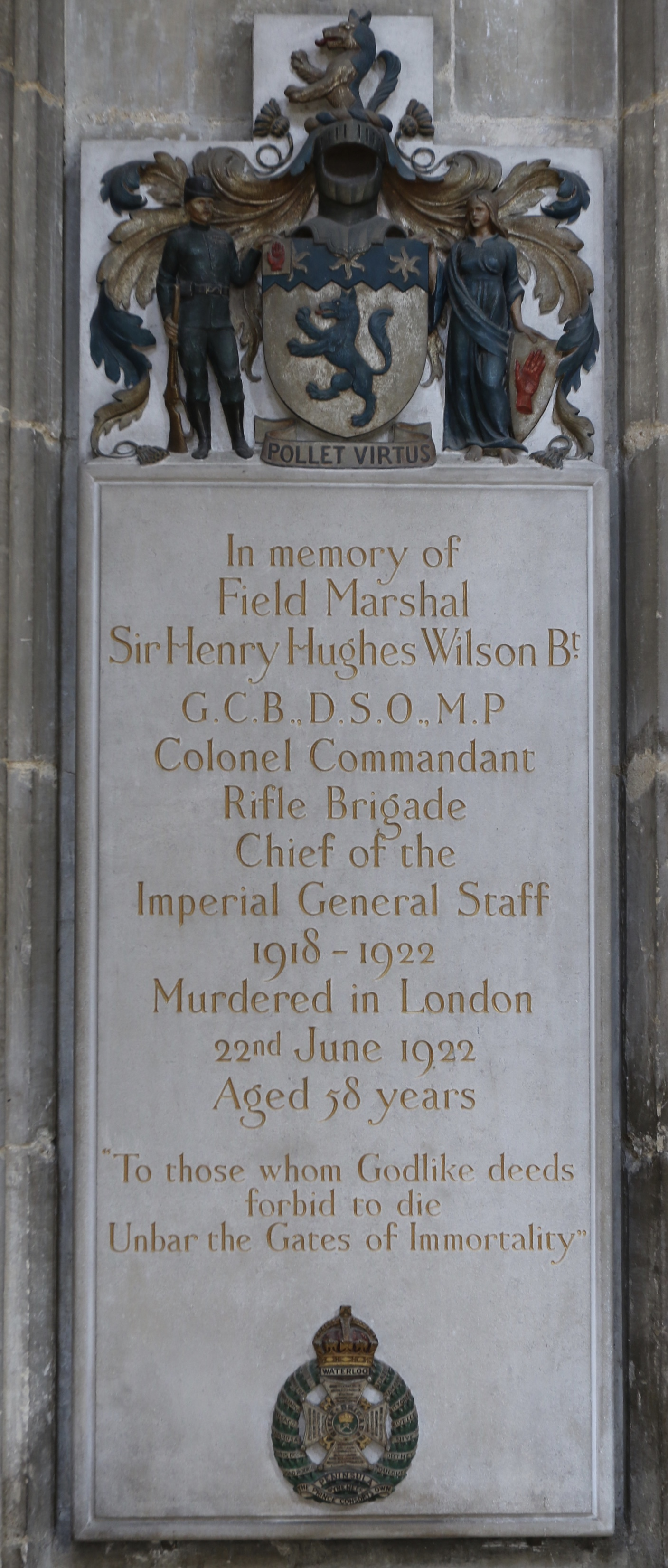 Field Marshal Sir Henry Hughes Wilson Bt. GCB, DSO, MP. Colonel Commandant Rifle Brigade. Chief of the Imperial General Staff 1918 - 1922. Murdered in London 22 June 1922, aged 58 years.